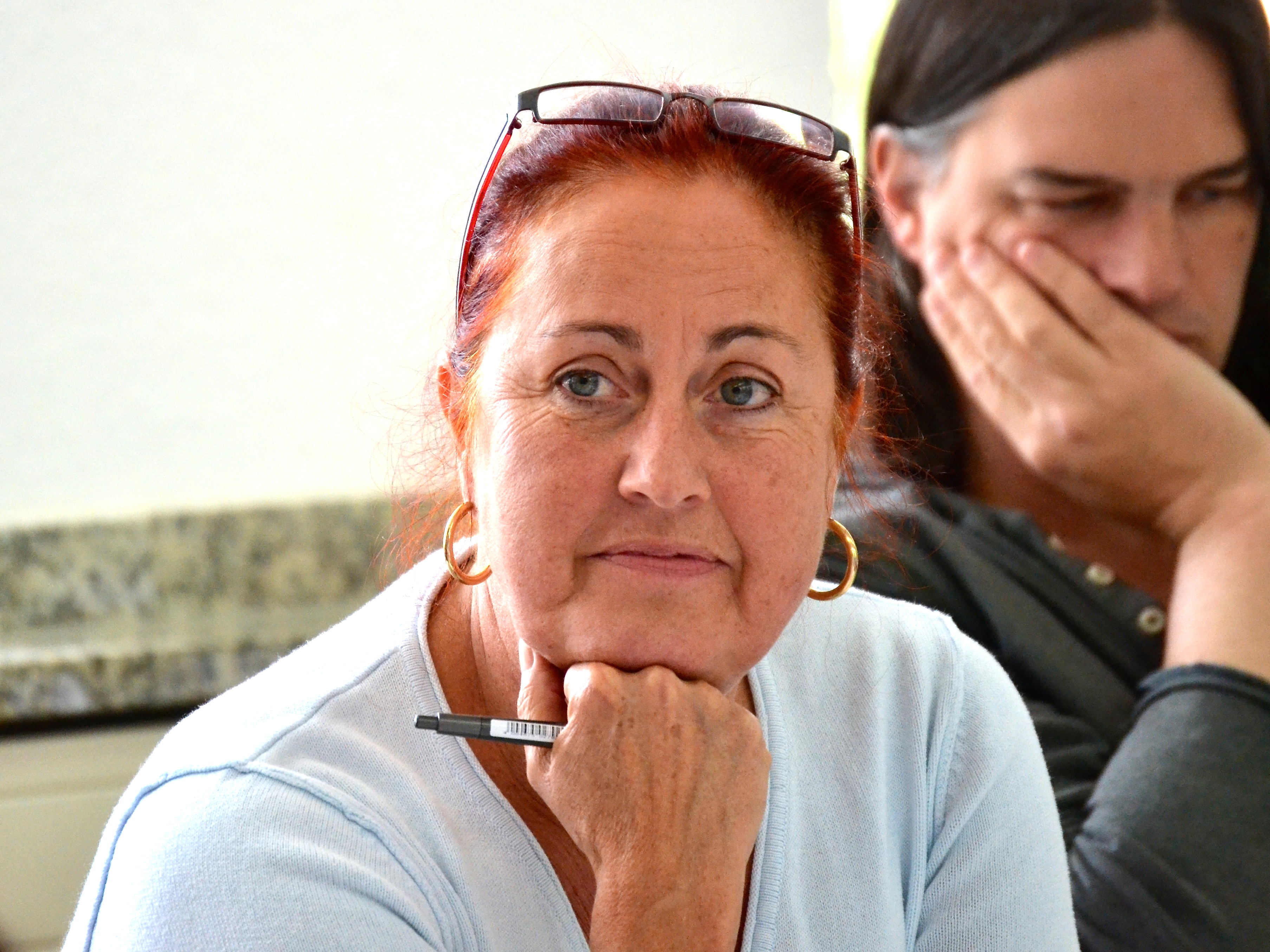 Klausurtagung Landesvorstand DIE LINKE. NRW am 17./18.6.2016 in Düsseldorf Foto: Irina Neszeri